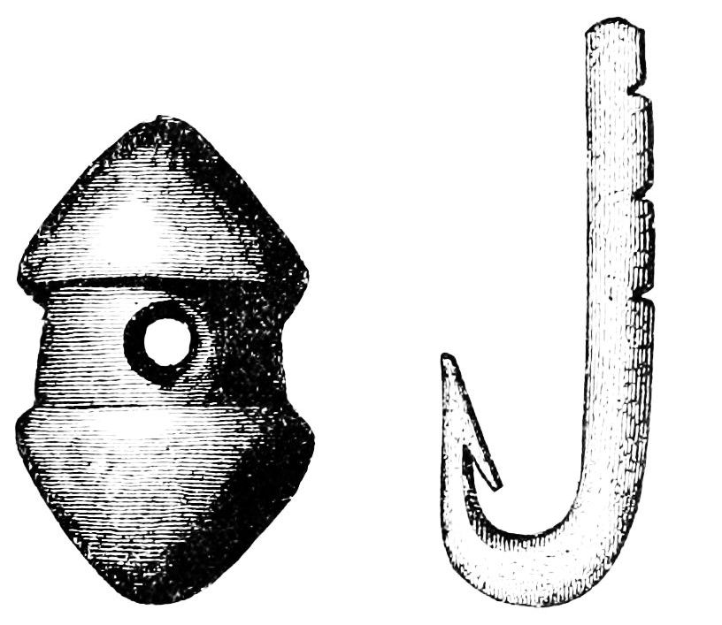 Amber bead and bonefish hook